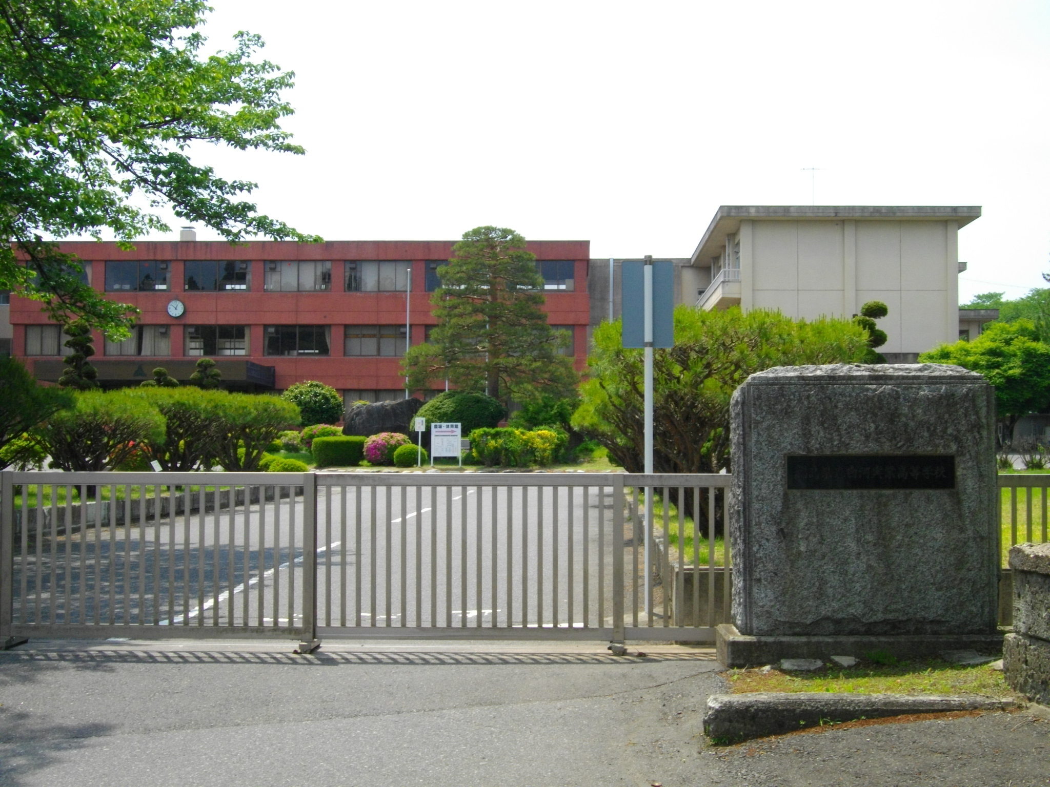 Shirakawa Jitsugyo High School